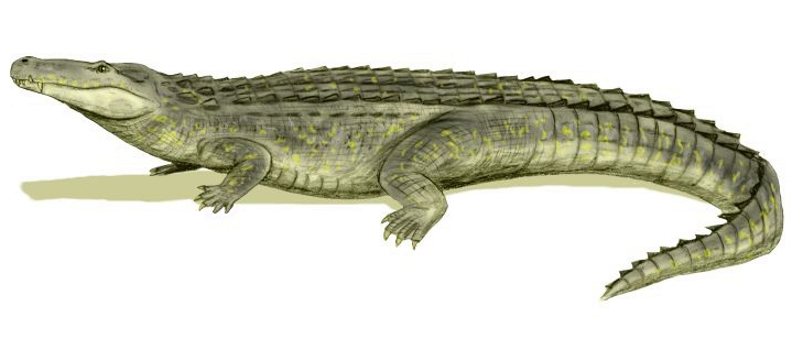 Purussaurus brasiliensis, a 12 m long alligatoridae from the Miocene of Brazil, pencil drawing